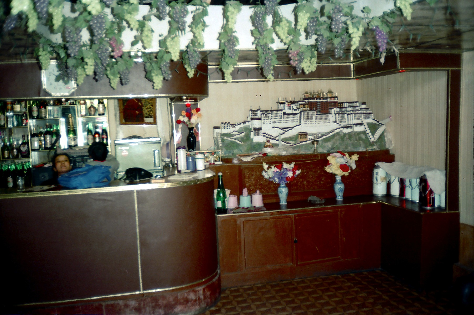 I took this photo onb a trip to Lhasa in 1993